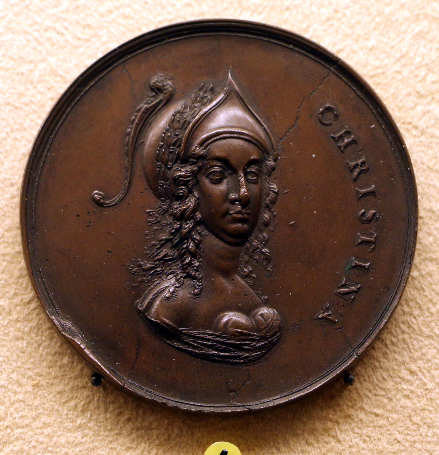 Coins and medals in the National Museum of Finland